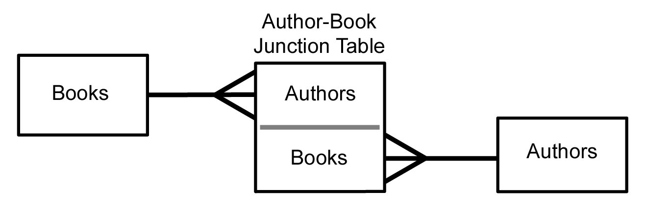 A many-to-many relation implemented as two one-to-many relationships with a junction table.